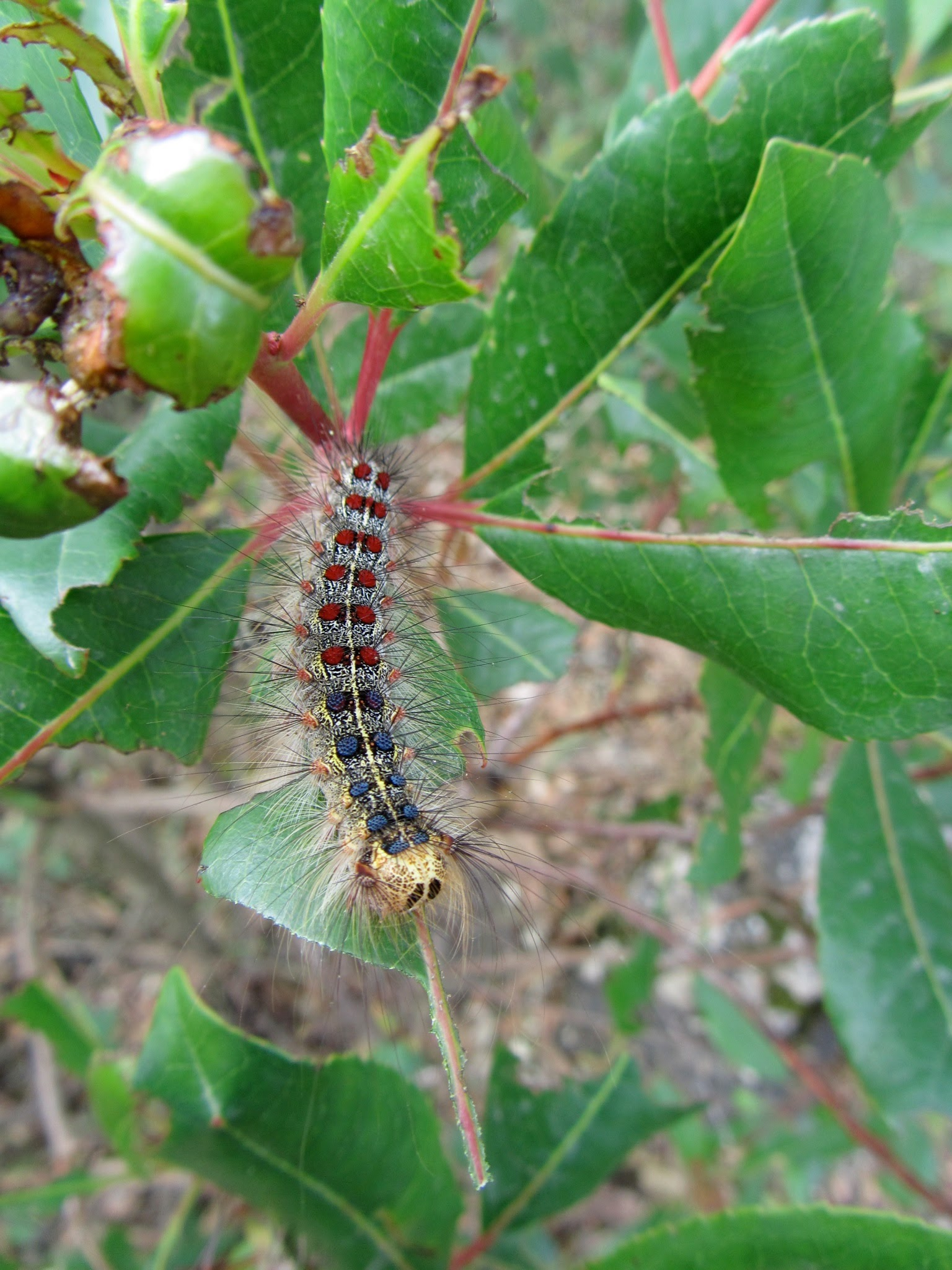 Close up of colourful gypsy moth caterpillar eating leaves